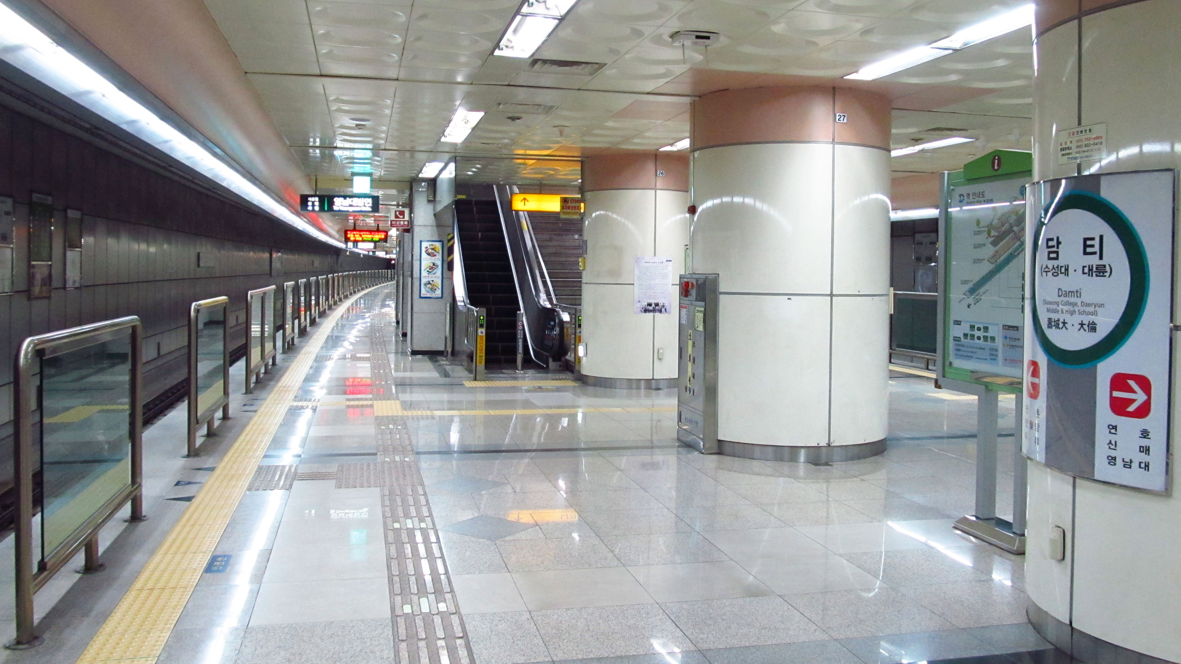 The platform of Damti Station on the Daegu Metro Line 2